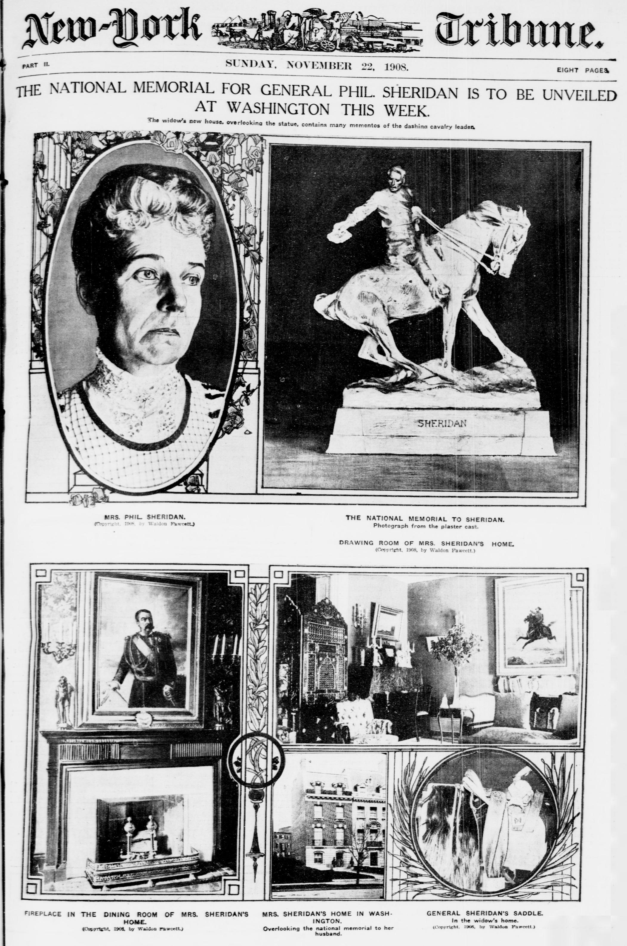 New-York tribune. (New York [N.Y.]) 1866-1924 November 22, 1908, Image 15 Notes: Cover, illustrated supplement. Format: Newspaper page, from microfilm Rights Info: No known restrictions on reproduction. Repository: Library of Congress, Serial and Government Publications Division, Washington, D.C. 20540 USA. Part Of: Chronicling America (Library of Congress) (DLC) - Persistent URL: More information about the Chronicling America Web site is available at